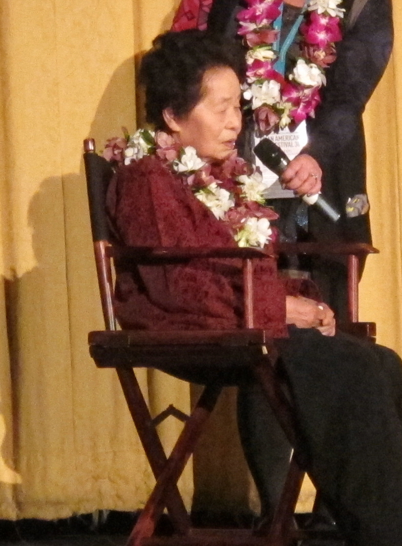 Keiko Fukuda takes questions on stage at the Castro Theater, on March 11, 2012